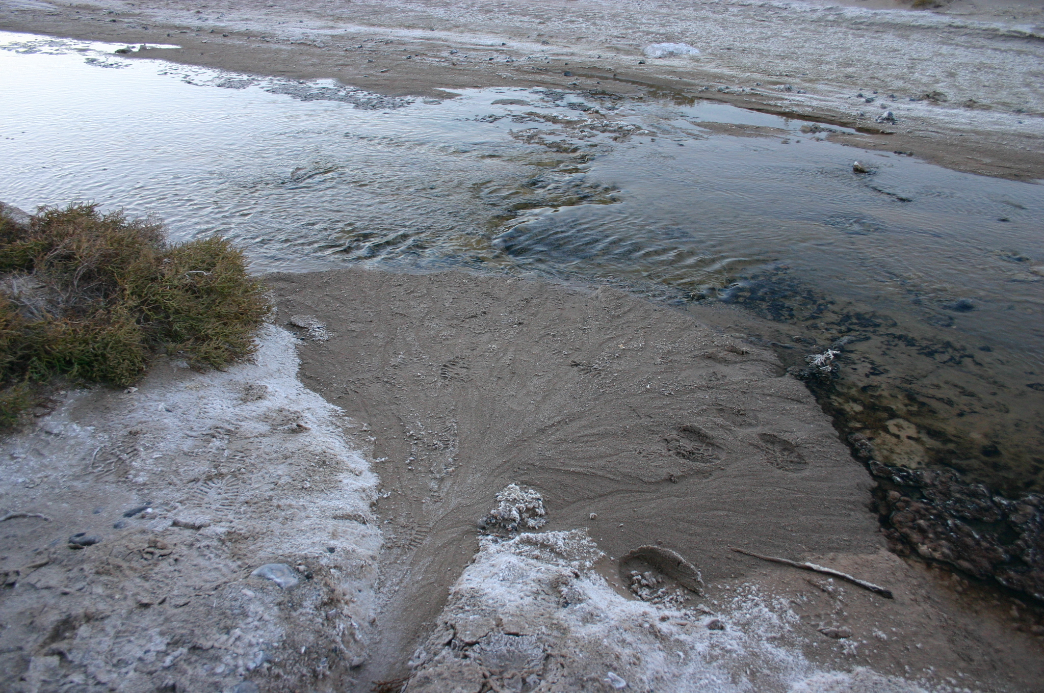 A tiny alluvial fan, with a clearly recognizable fan shape. Some previous unknown visitors who did not appreciate the sediment as an alluvial fan left their footprints there.